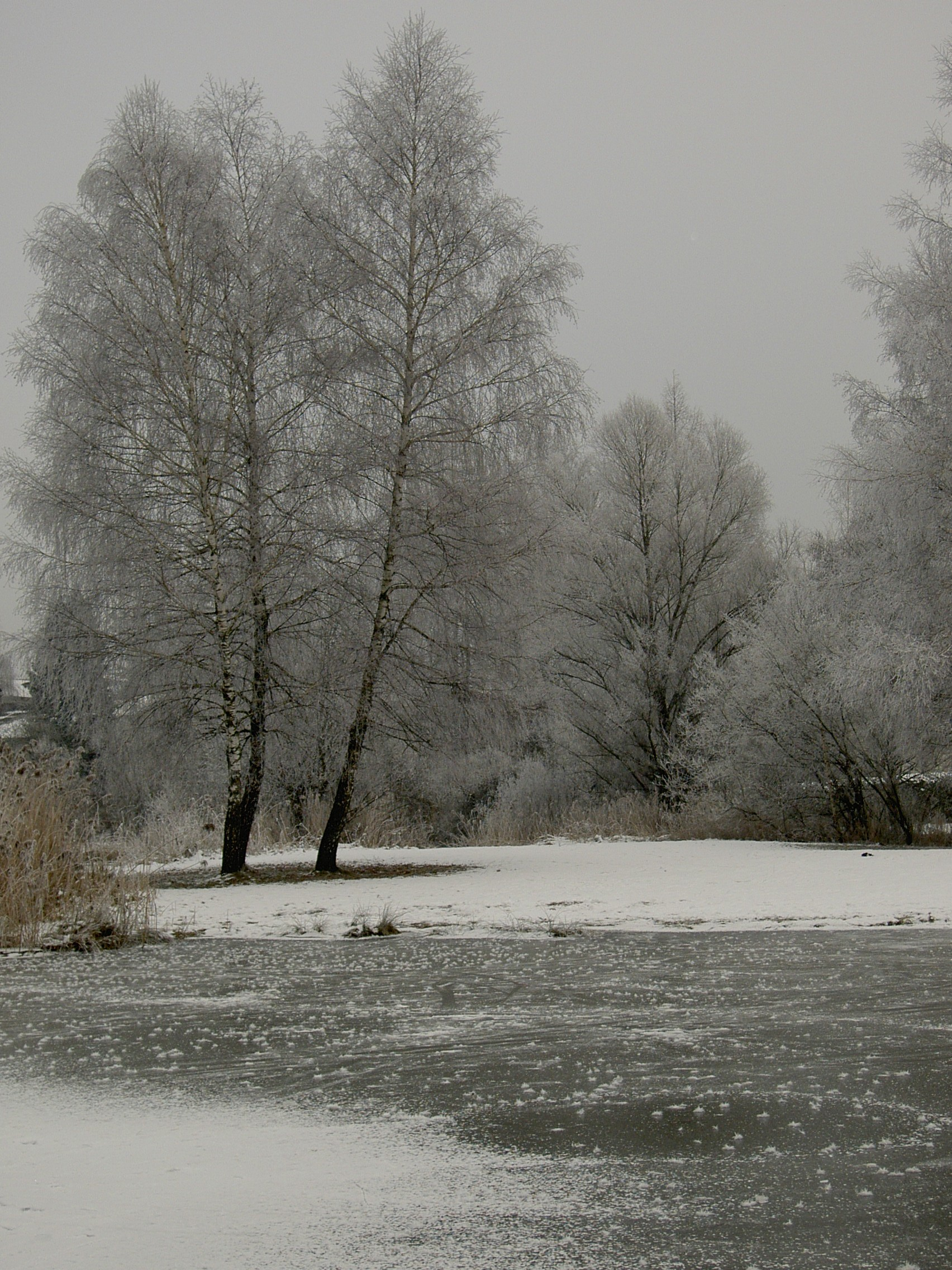 winter ambience at lake Bürmoos